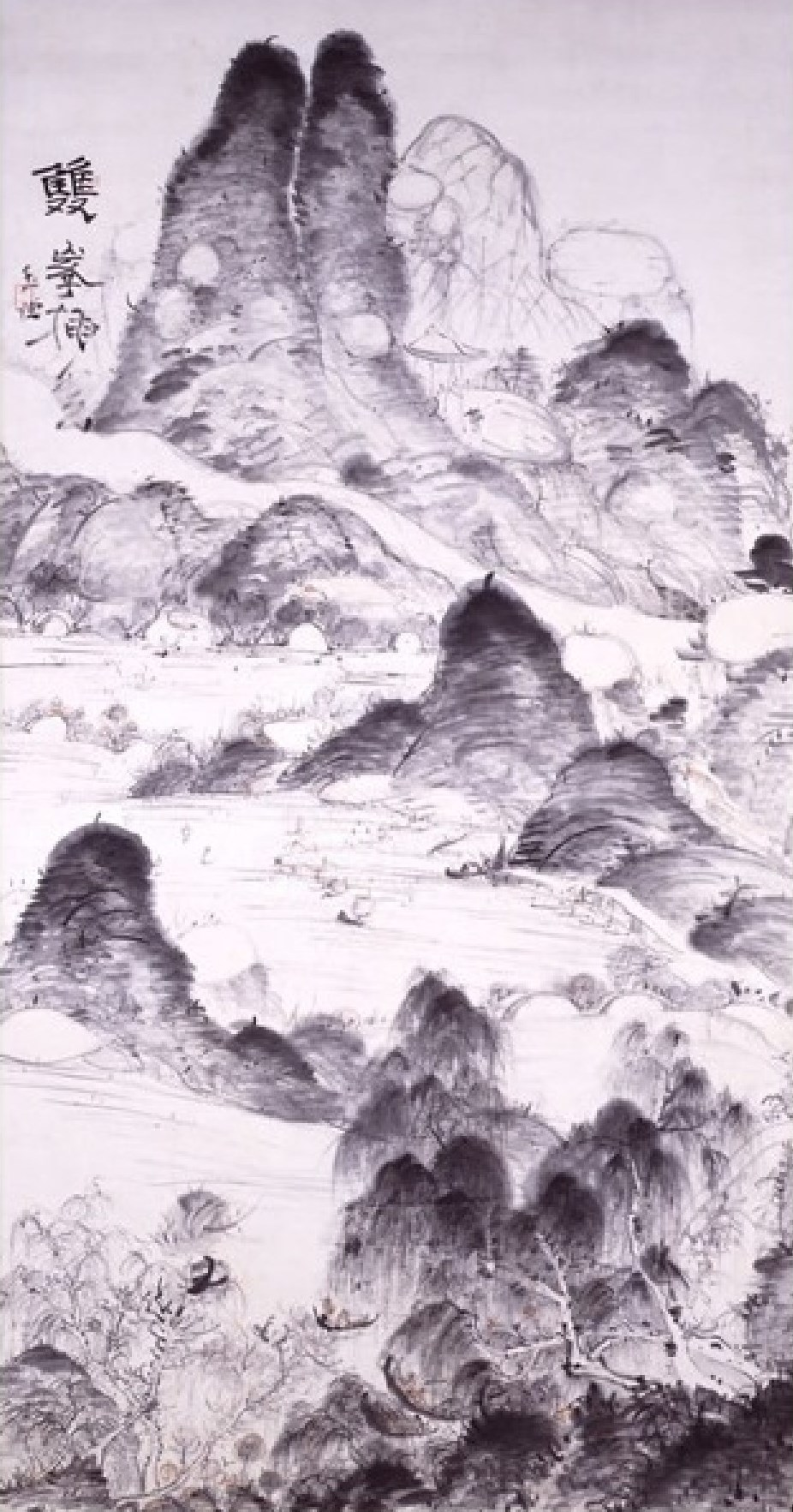 landscape